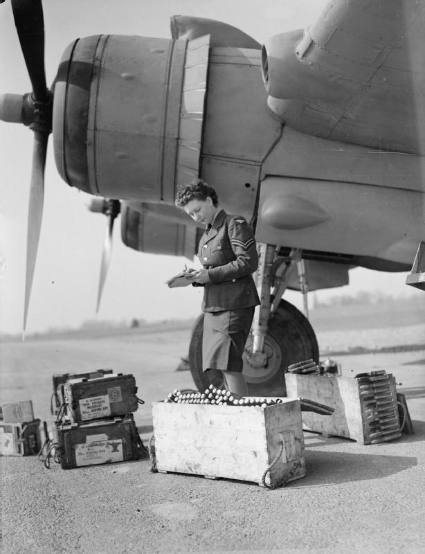 Royal Air Force Fighter Command, 1939-1945. A WAAF corporal checks a delivery of 20mm Hispano cannon shells before they are loaded into a Bristol Beaufighter NF Mark VI of No. 96 Squadron RAF at Honiley, Warwickshire.